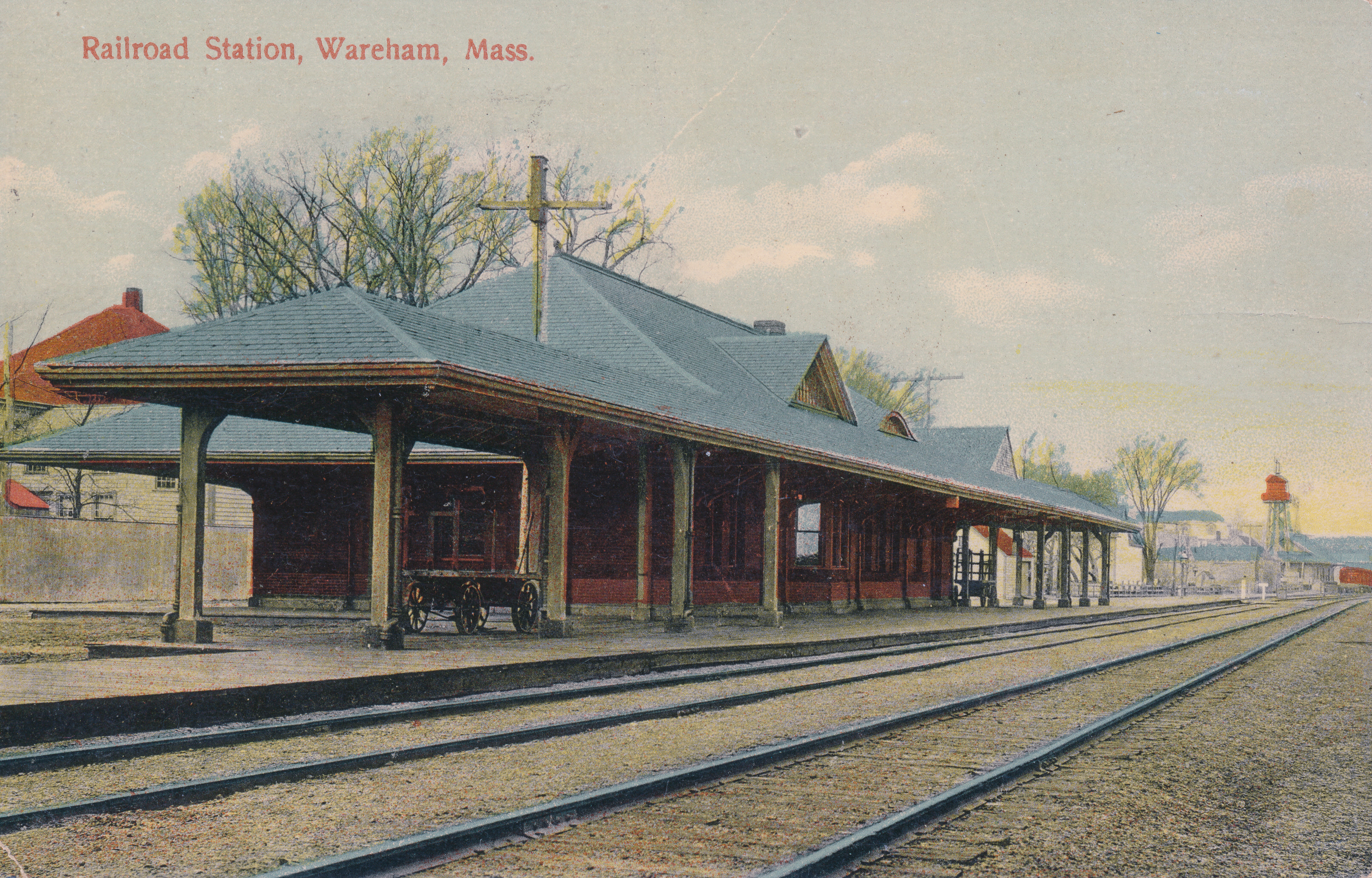 An early postcard of the old Wareham, Massachusetts train station.